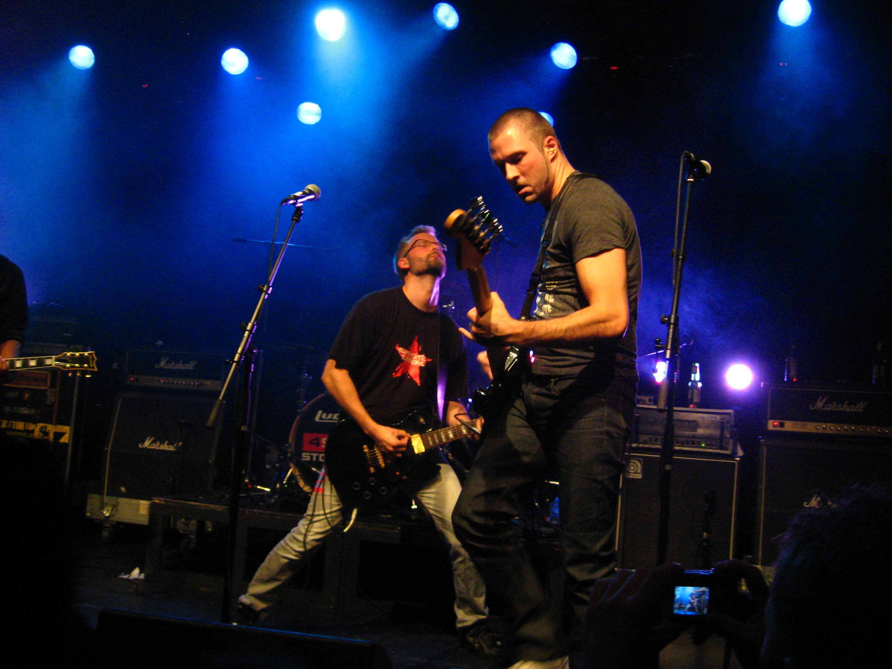 Slutstation Tjernobyl playing at Beat Butcher's 25 year jubilee.